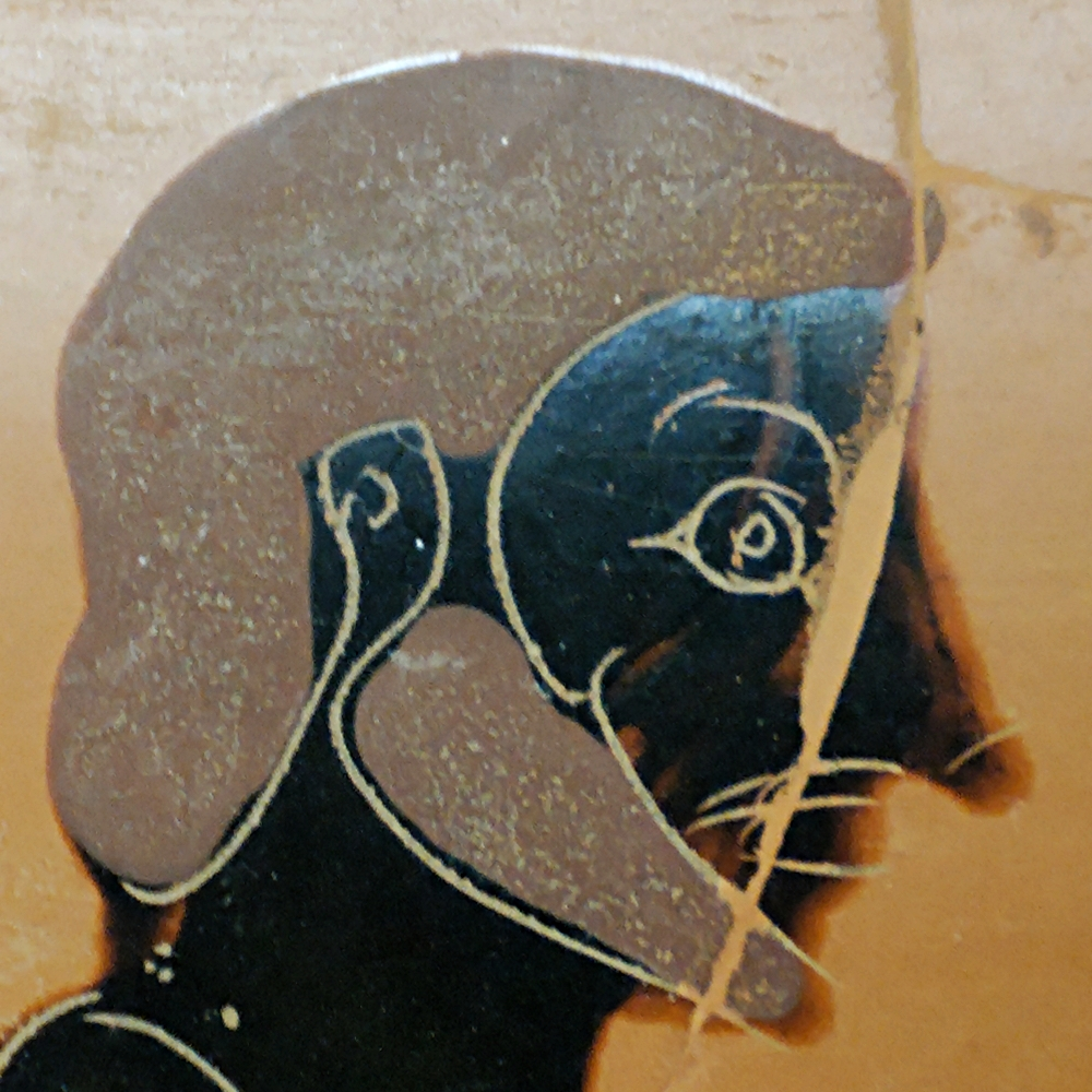 Man's head, detail from the side B from an Attic black-figure neck-amphora, ca. 525–520 BC. From Vulci.